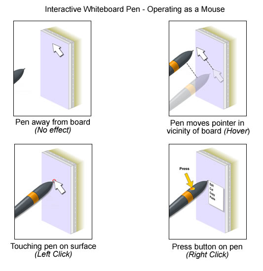 Diagram showing how an interactive whiteboard pen behaves as a mouse